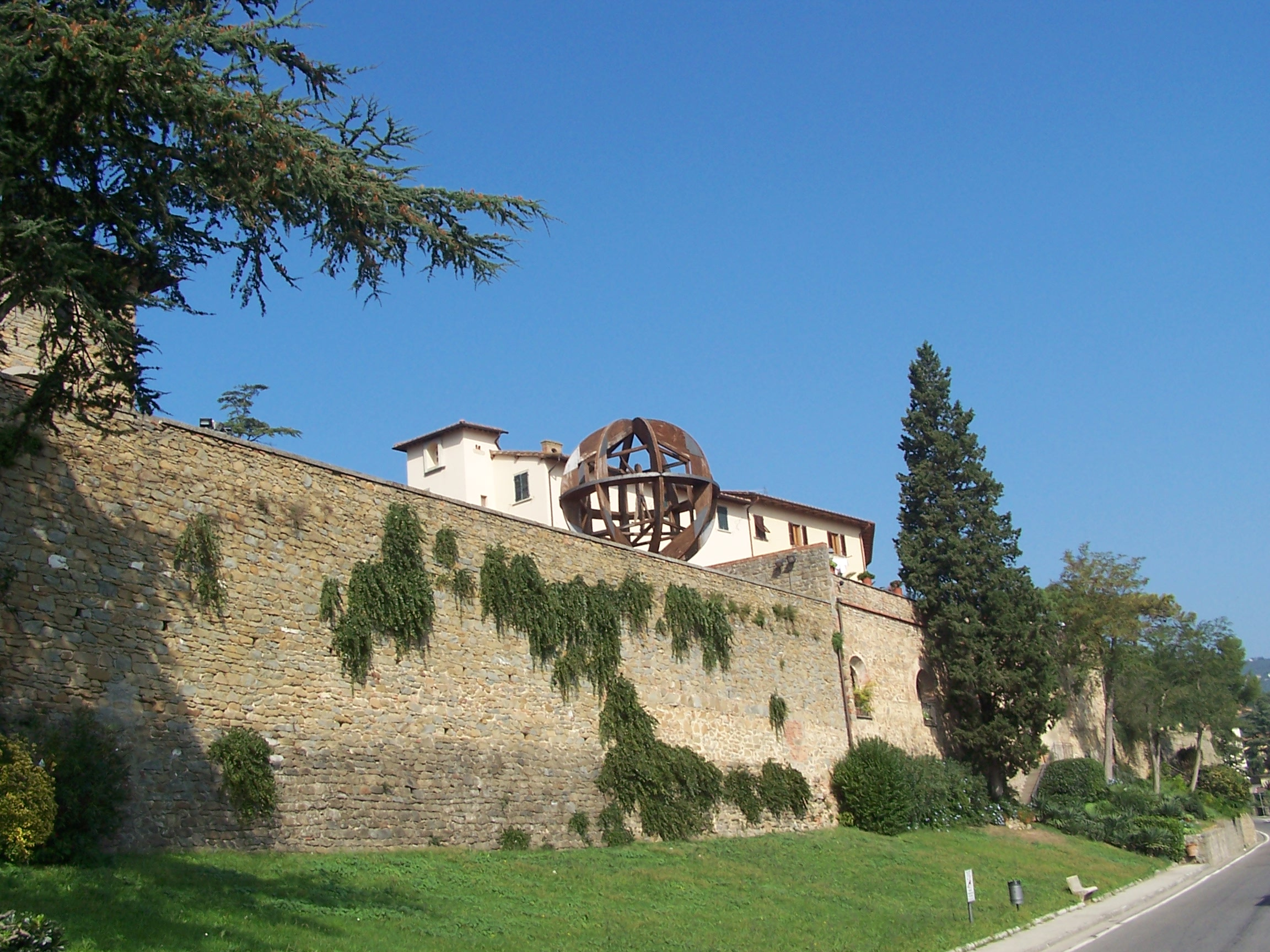 Vinci, Toscana, Italy.Vinci